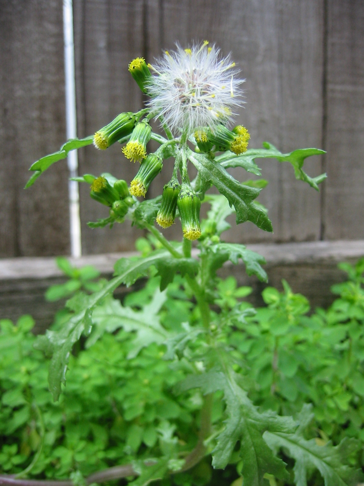 Senecio vulgaris blossoms, Common Groundsel the first fruiting flower head.